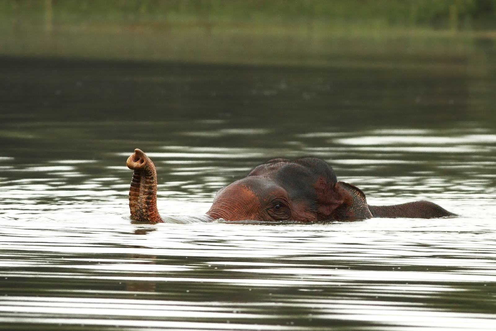 An Asiatic or Asian Elephant swimming using its trunk as snorkel in one of the reservoirs in Bandipur Tiger Reserve, Karnataka, India.